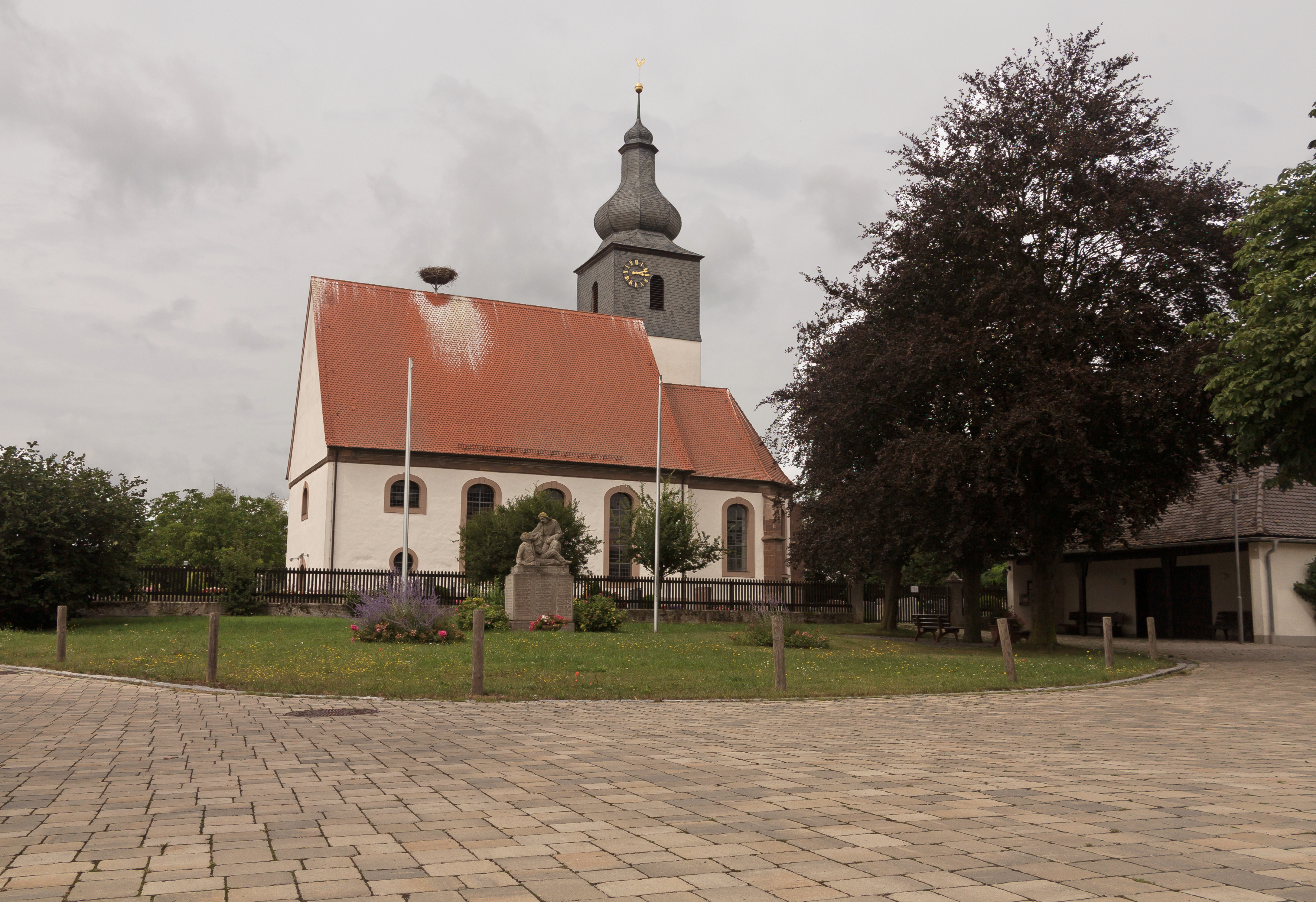 Lenkersheim, reformed church: Pfarrkirche Dreifaltigkeit volkstümlich Sankt Johannes